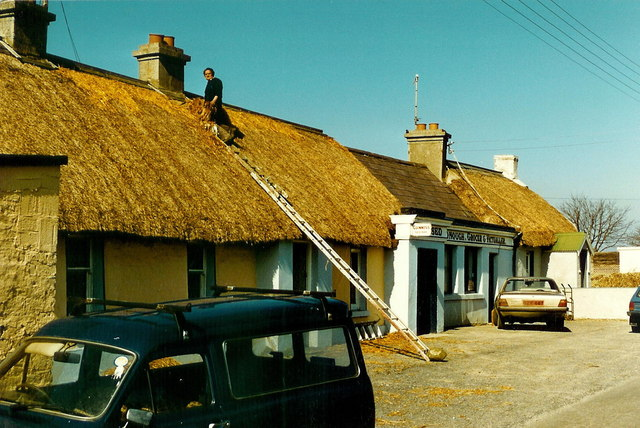 McDonough's thatched pub, Bettystown The shopfront still read 'Grocer & Victualler' when this photograph was taken in 1986. Now a pub only, the building still looks the same today, except the tin Guinness sign at the door has been replaced with a large plastic Heineken sign. Some large developments in the immediate vicinity have since eroded the village environment.